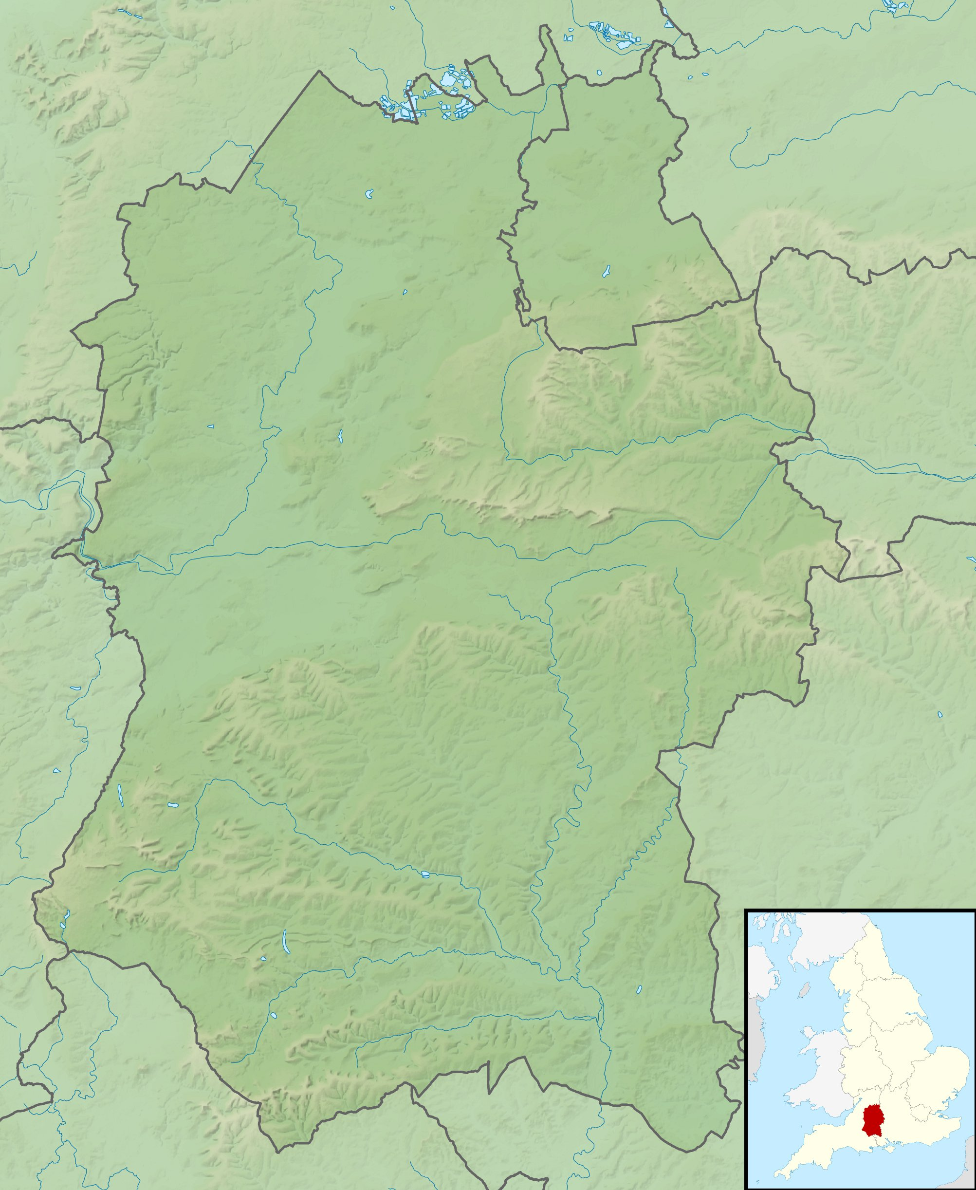 Relief map of Wiltshire, UK. Equirectangular map projection on WGS 84 datum, with N/S stretched 160% Geographic limits: West: 2.40W East: 1.35W North: 51.72N South: 50.92N